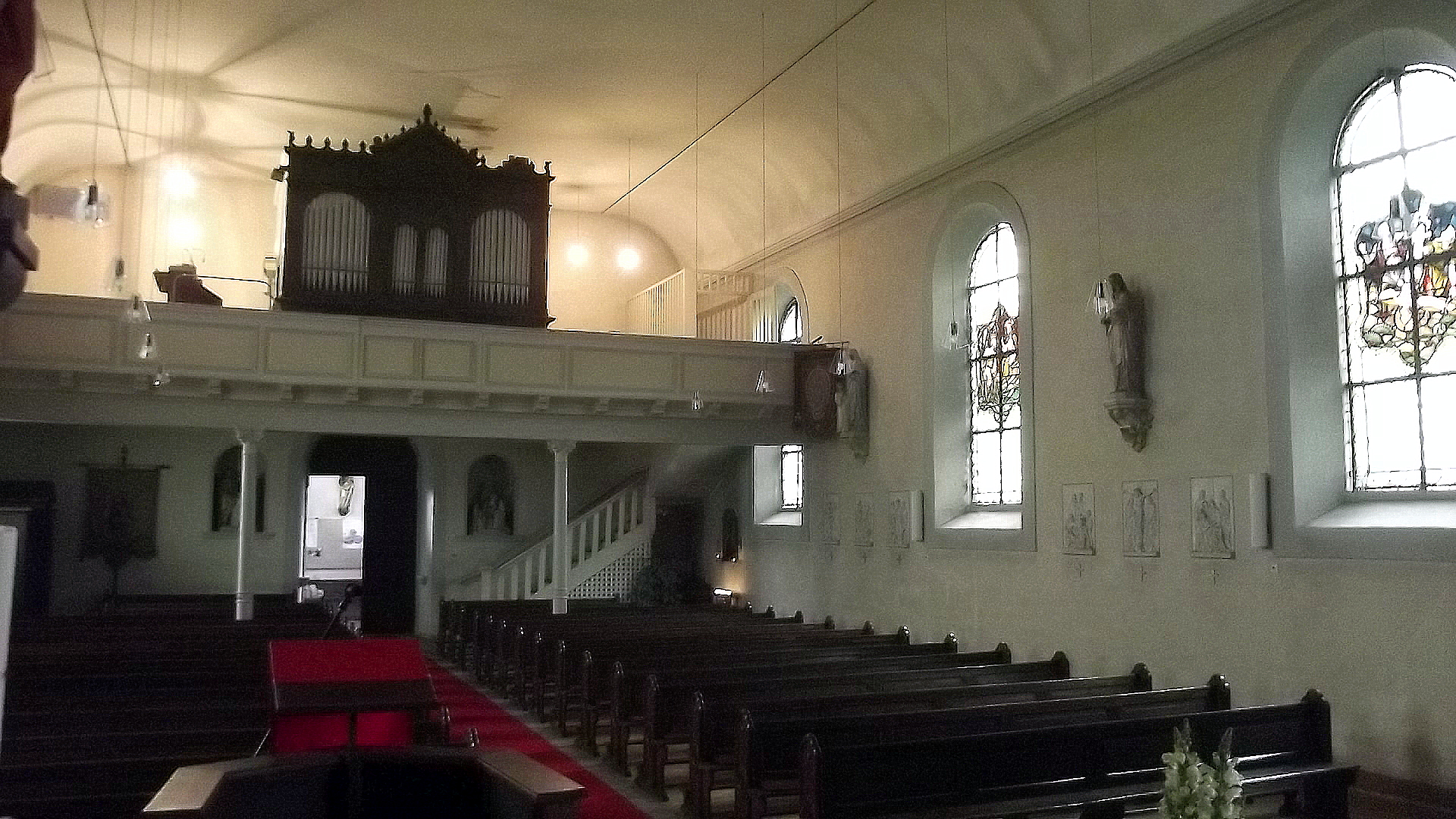 Interior of the roman catholic church in Bisten, Saarland, Deutschland